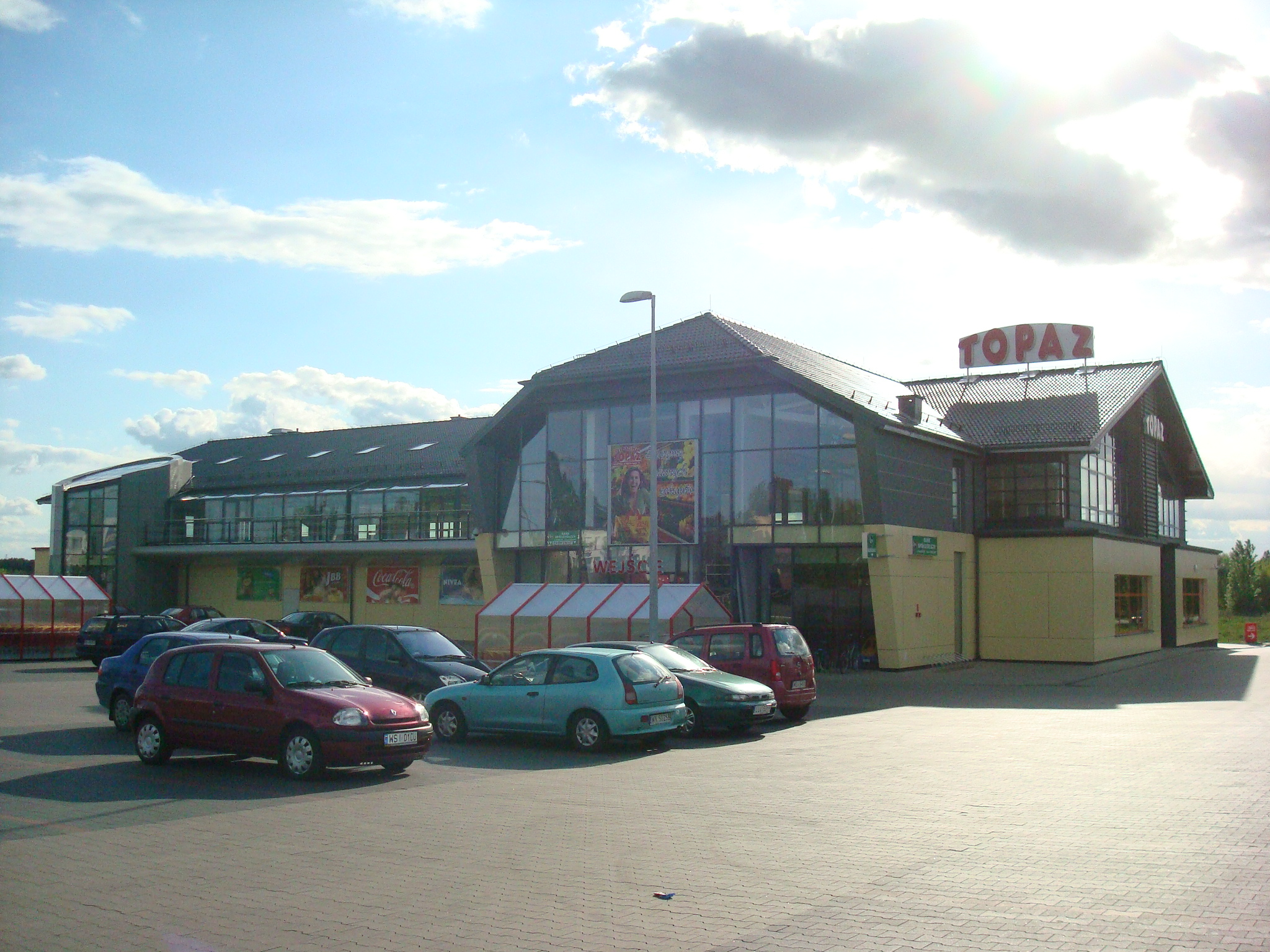 Shop "Topaz" in Siedlce